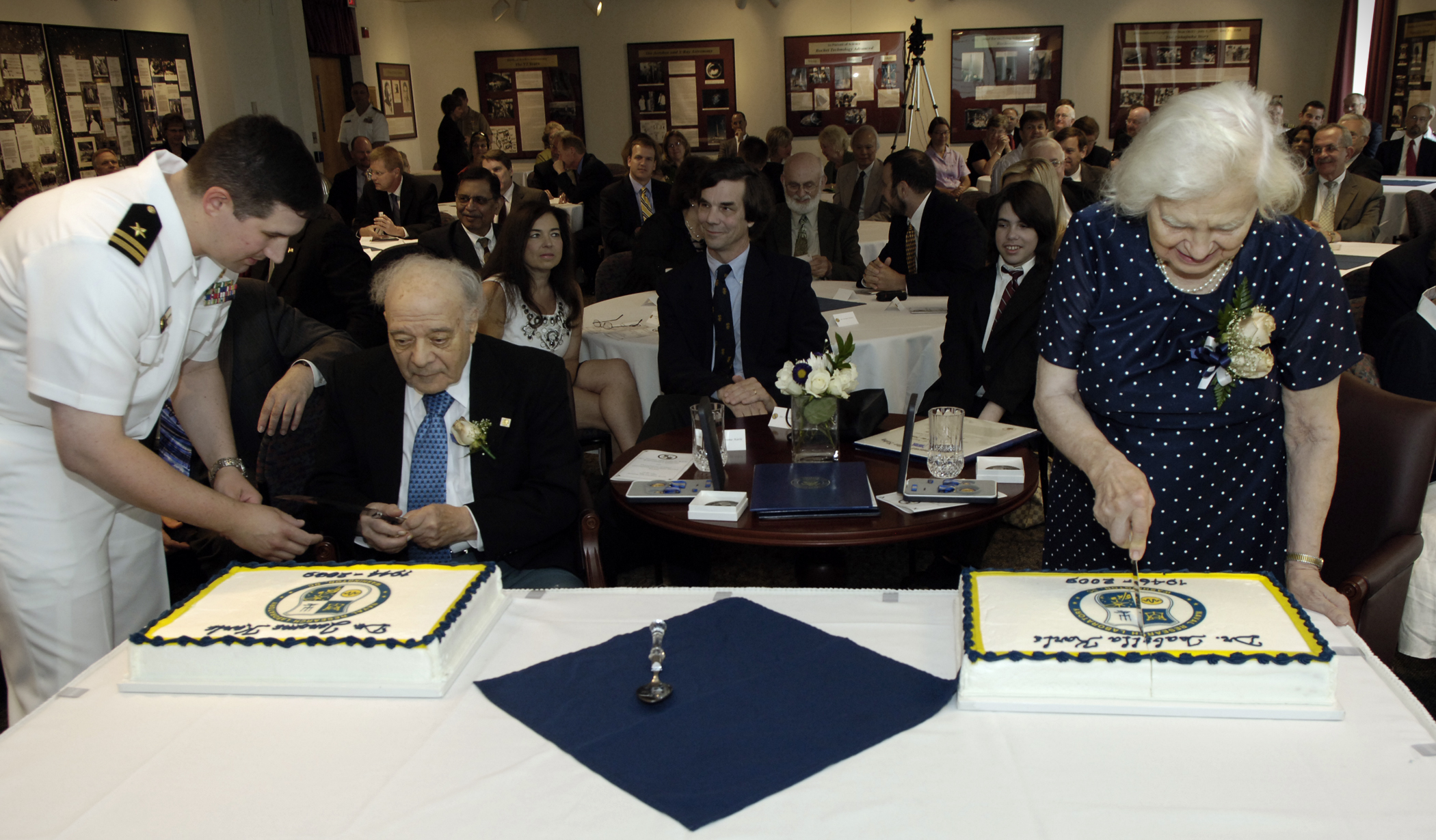 Washington (July 21, 2009) Dr. Jerome Karle, left, and Dr. Isabella Karle cut their respective cakes as they retire from the Naval Research Laboratory after a combined 127 years of government service. Secretary of the Navy (SECNAV) the Honorable Ray Mabus presented the Department of the Navy Distinguished Civilian Service Award to the Karles, whose many awards and honors include Dr. Jerome Karle's 1985 Nobel Prize in Chemistry and Dr. Isabella Karle's 1995 National Medal of Science. (U.S. Navy photo by John F. Williams/Released)